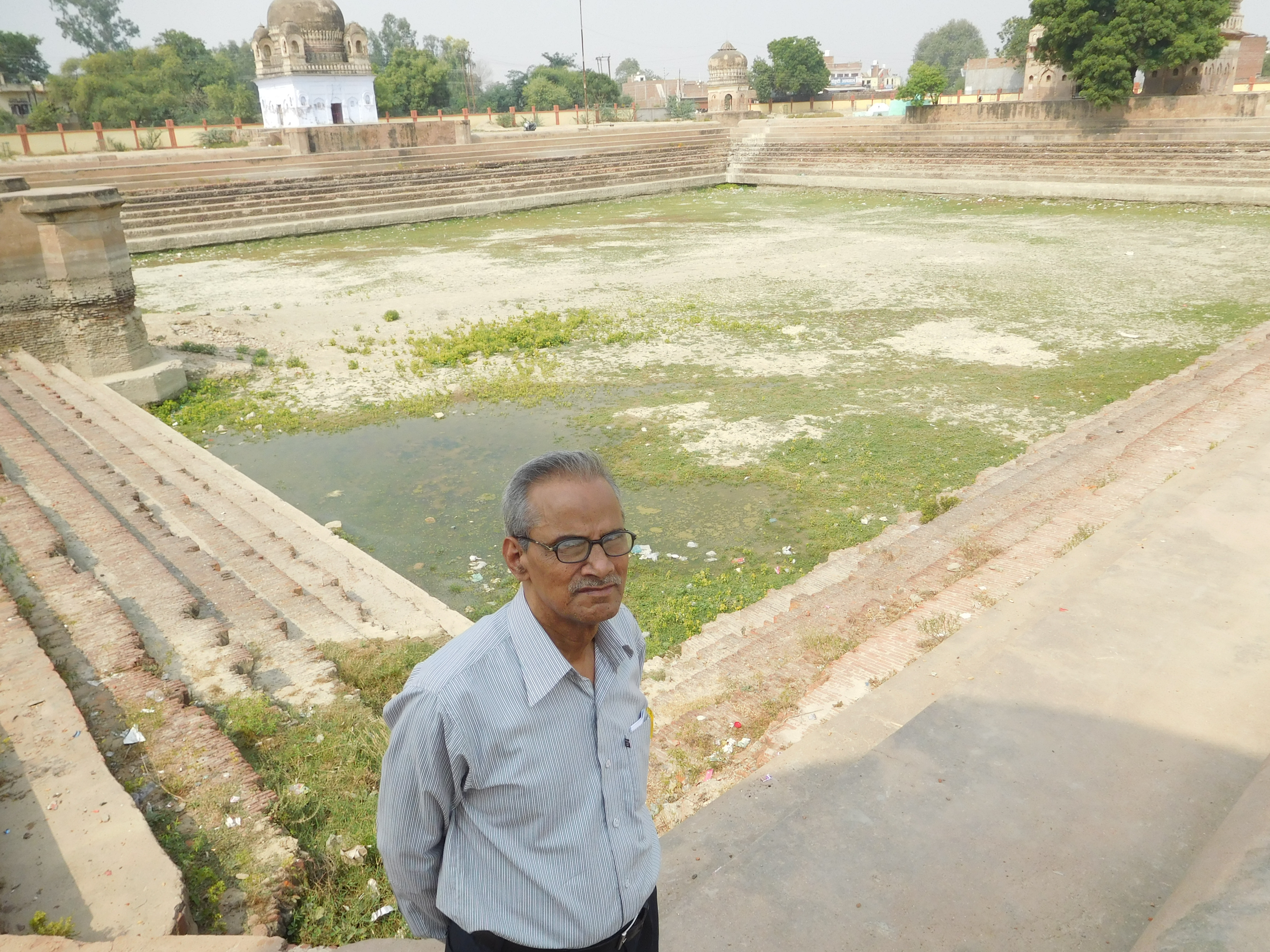 Historical Shukla Talab (Dry) Akbarpur Kanpur Dehat,Uttar Pradesh ,India